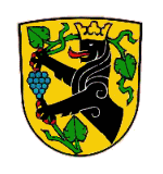 Coat of Arms of Eibelstadt